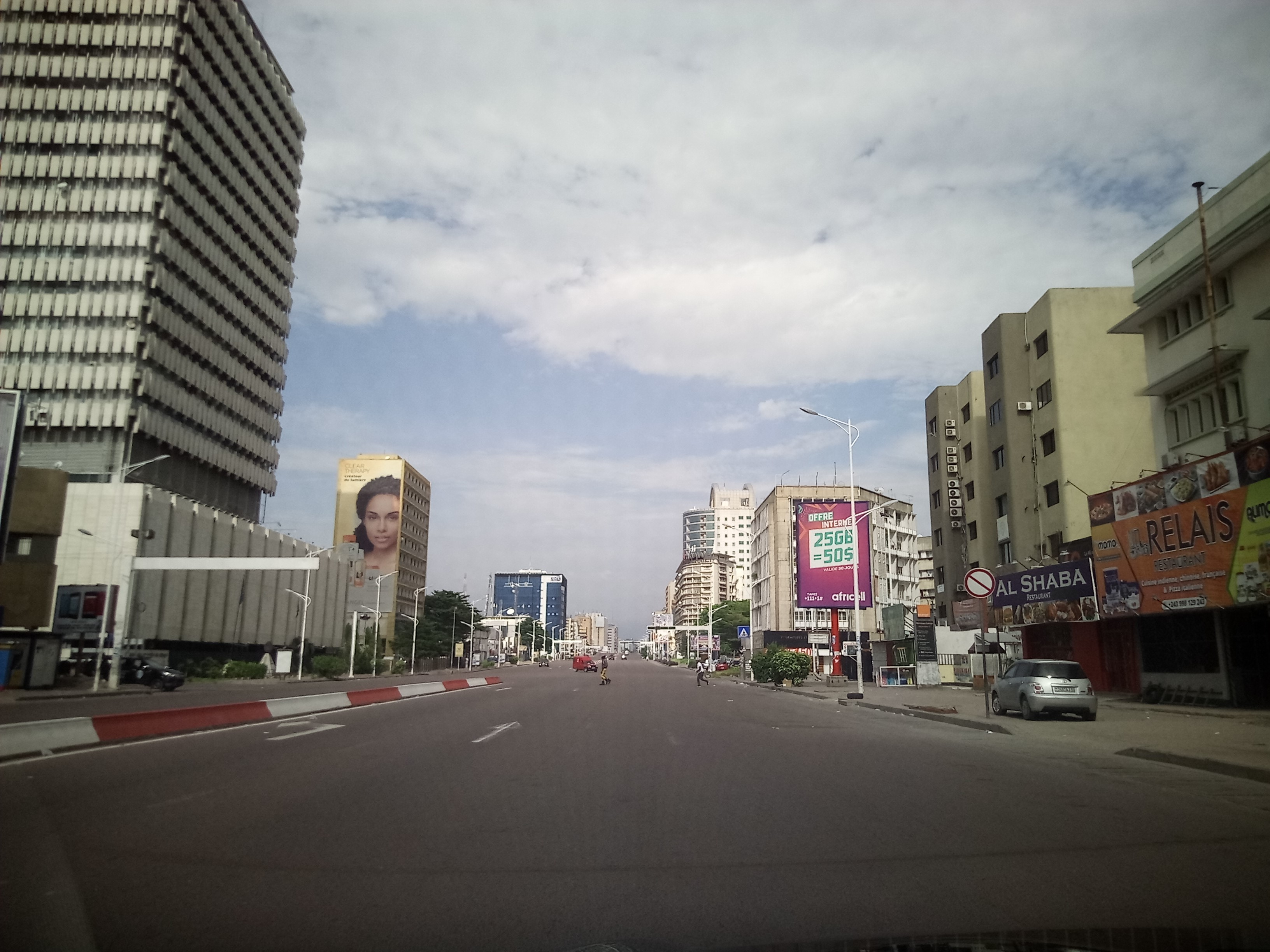 Kinshasa, DRC: The Congolese authorities have decided on the general confinement of the Commune of Gombe in Kinshasa, from April 6 to 20, 2020. MONUSCO fully adheres and supports this measure intended to combat the spread of the coronavirus in the Congolese capital. Thus, the Mission sites located in the confinement zone will only be accessible to uniformed personnel and essential civilian personnel whose physical presence is required. Photo MONUSCO / Ben Kabamba